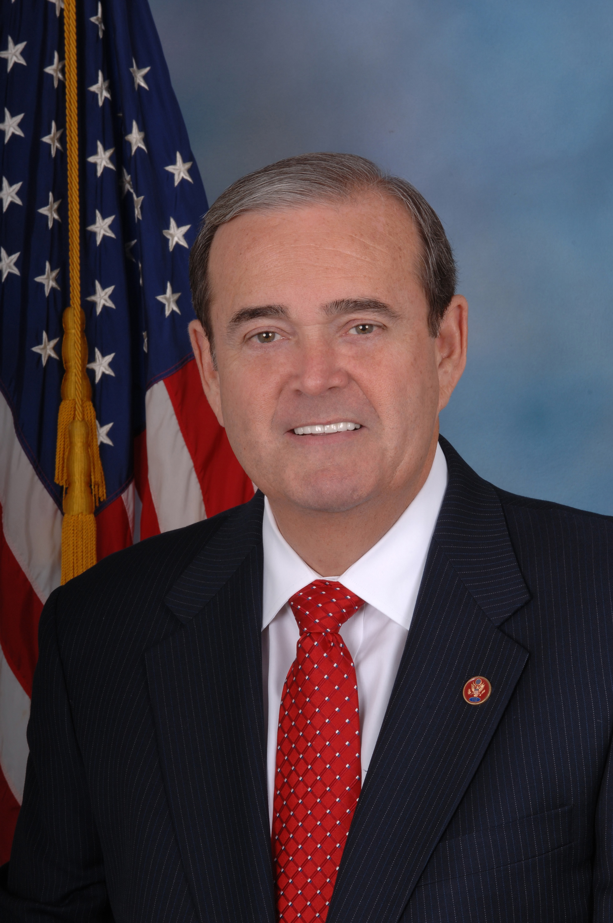 Jerry Costello, member of the United States House of Representatives.